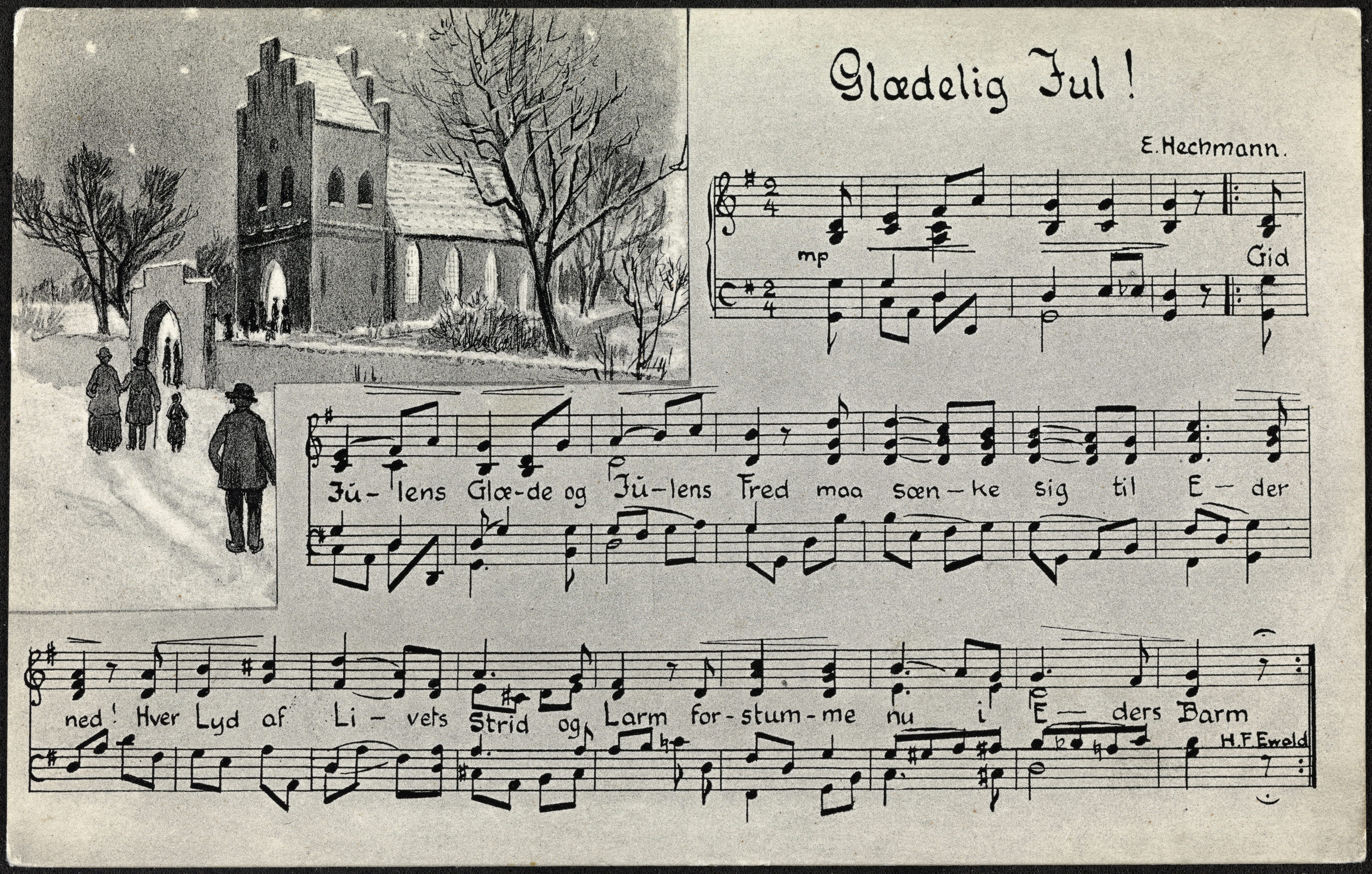 Dato / Date: ca. 1906 Kunstner / Artist: ukjent / unknown Utgiver / Publisher: C. St. Digital kopi av original / Digital copy of original: sv/hv, trykt postkort Eier / Owner Institution: Nasjonalbiblioteket / National Library of Norway Lenke / Link: Bildesignatur / Image Number: blds_07549